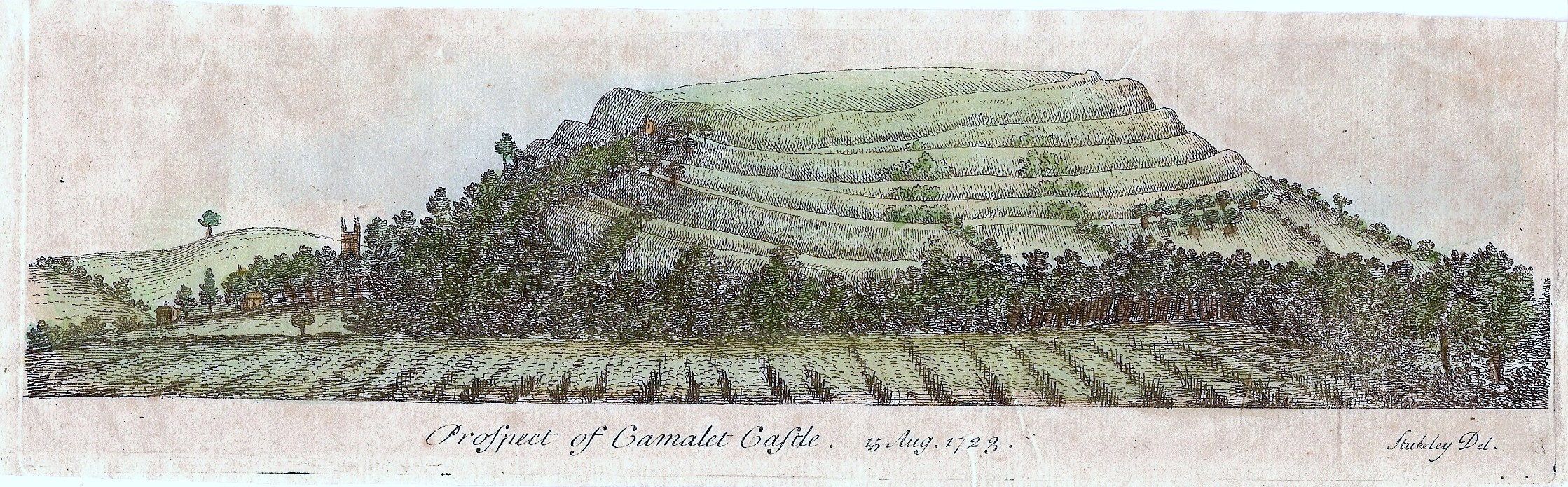 "Prospect of Camalet Castle. 15 Aug 1723." A view of Cadbury Castle, an Iron Age hillfort in Somerset, England.